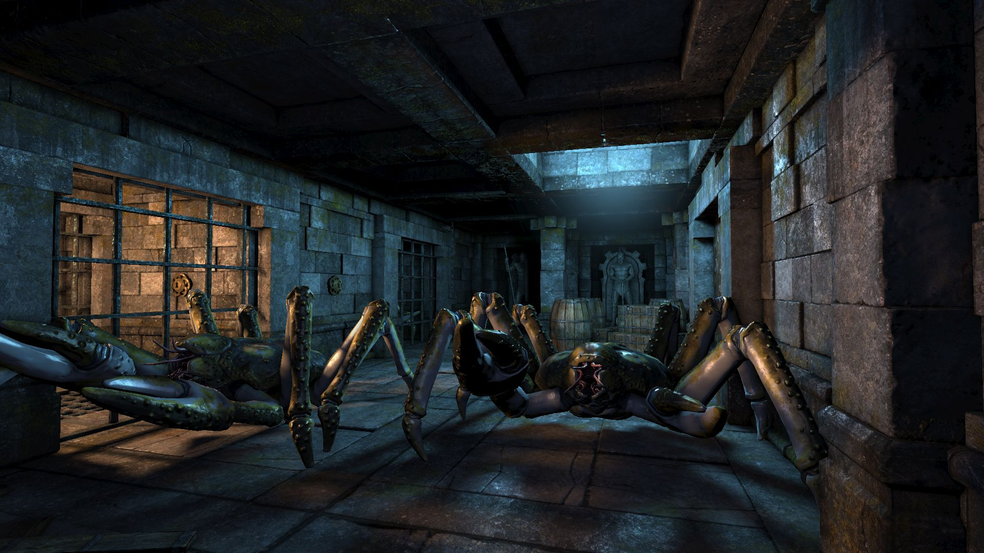 screenshot of the dungeon crawler computer game Legend of Grimrock (2012)